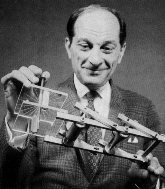 This image was taken from a Los Alamos National Laboratory report: MCNP SOFTWARE QUALITY: THEN AND NOW Gregg C. Giesler, Los Alamos National LaboratoryLA-UR-00-2532; 16 October 2000 URL: Deer*lake (talk) 19:22, 1 December 2011 (UTC)